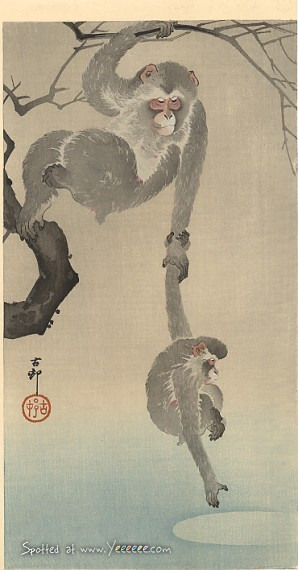 "Monkey with her child" by Ohara Koson